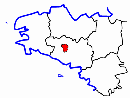 Description: Map for localisazion of cantons of Bretagne region in France Source: made by Hervé Tigier in april 2005 from another large map (published in 1990)